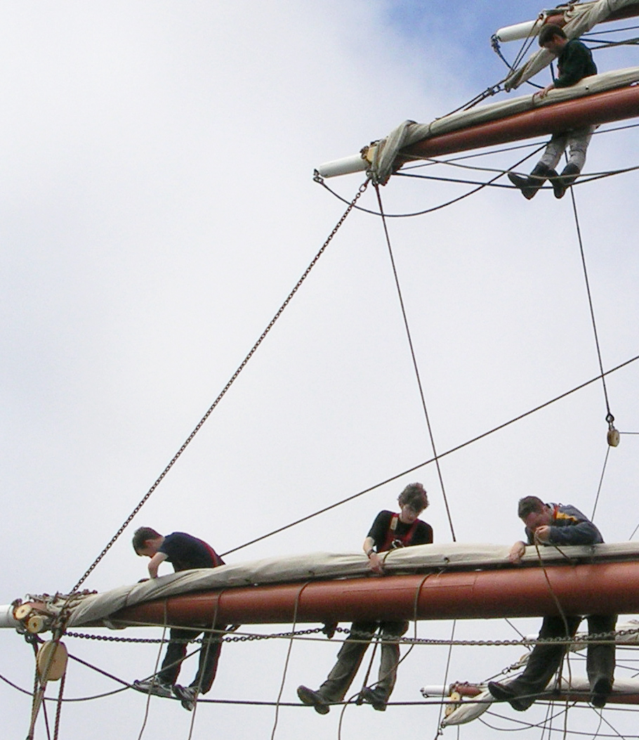 Crew stowing the fore-course and fore-lower-topsail on the Prince William. Good illustration of lower-topsail-sheet, footropes, flemish horses and gaskets.